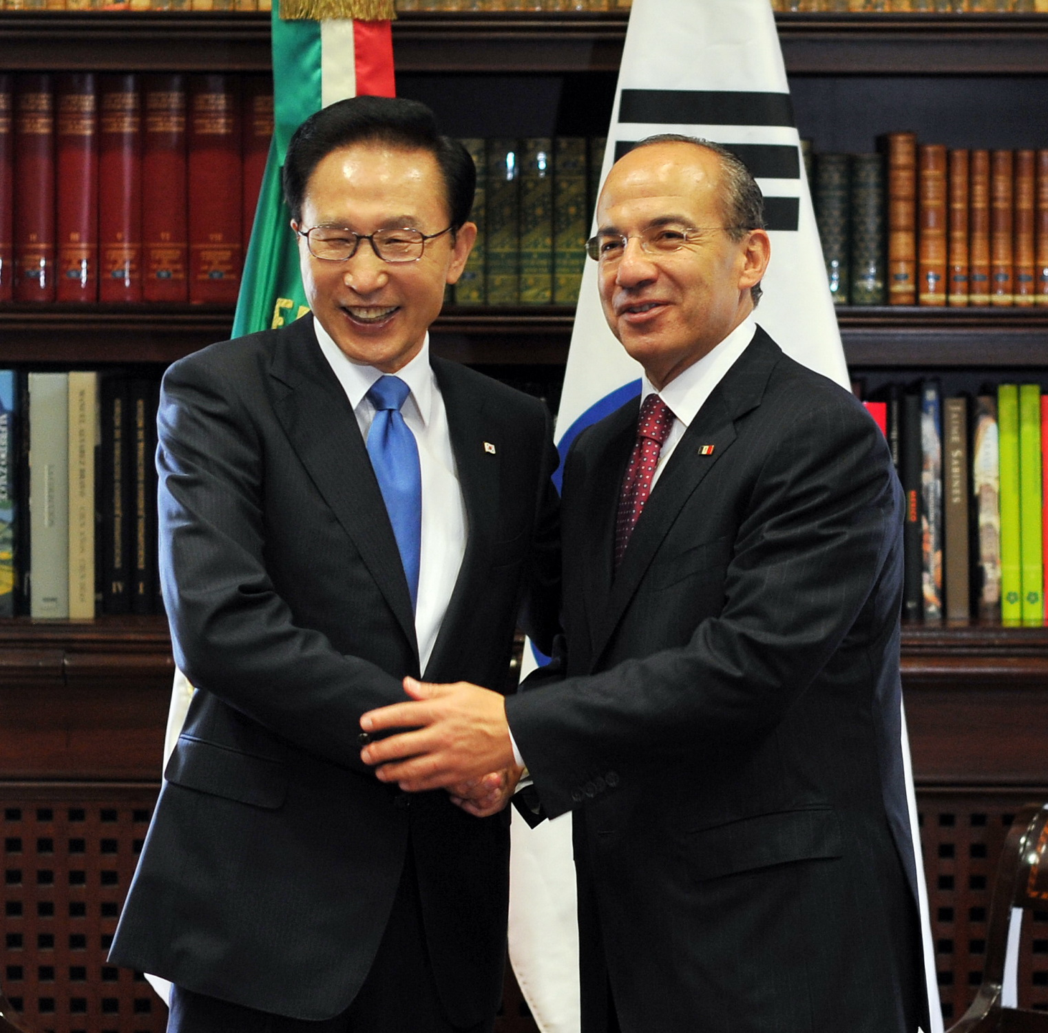 During his state visit to Mexico City, President Lee Myung-bak (l) met with his Mexican counterpart Felipe Calderon (r) on Thursday (Jul. 1).